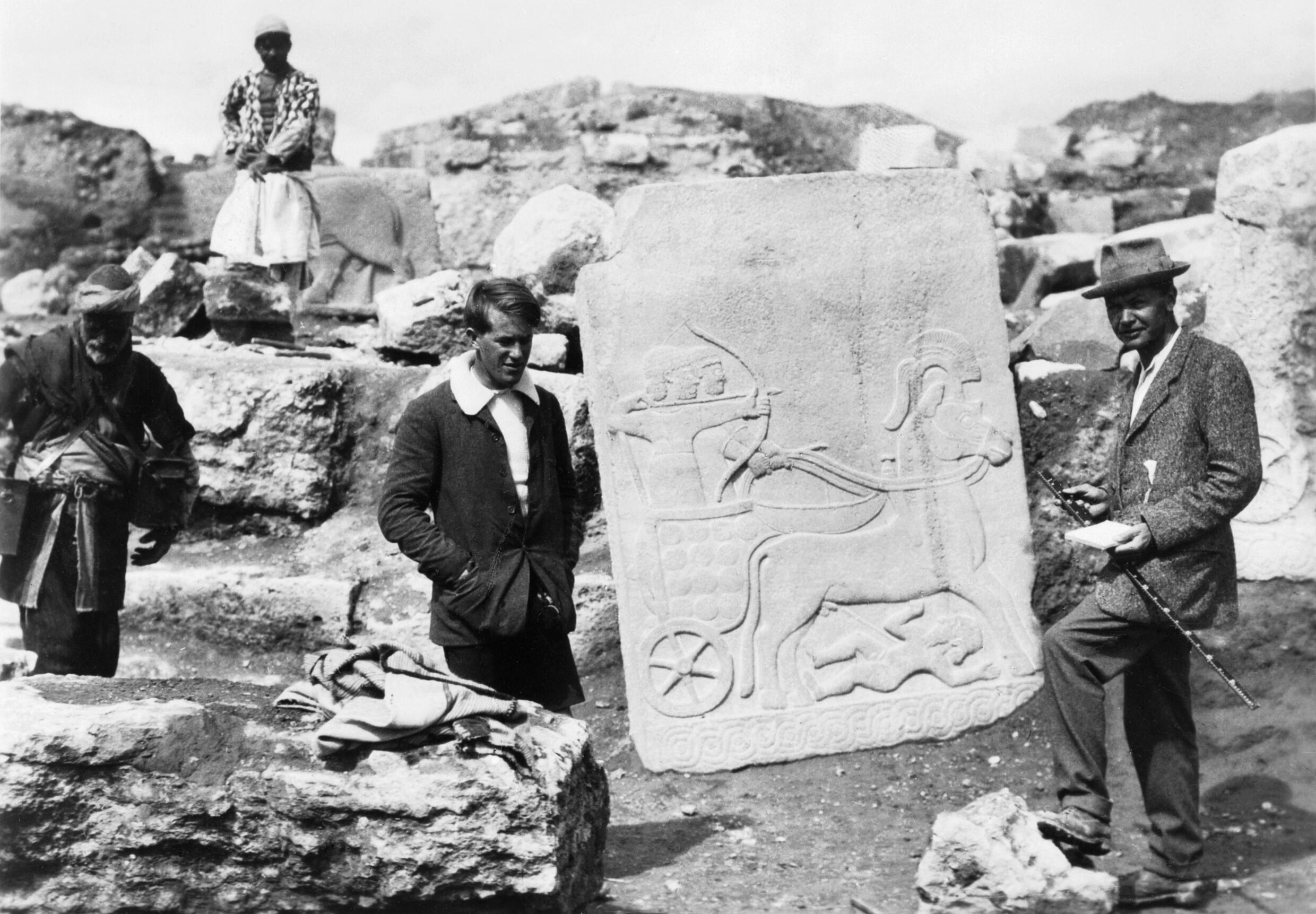 T E Lawrence (1888-1935) T E Lawrence with Leonard Woolley, the archaeological director, with a Hittite slab on the excavation site at Carchemish near Aleppo, in 1912-1914.